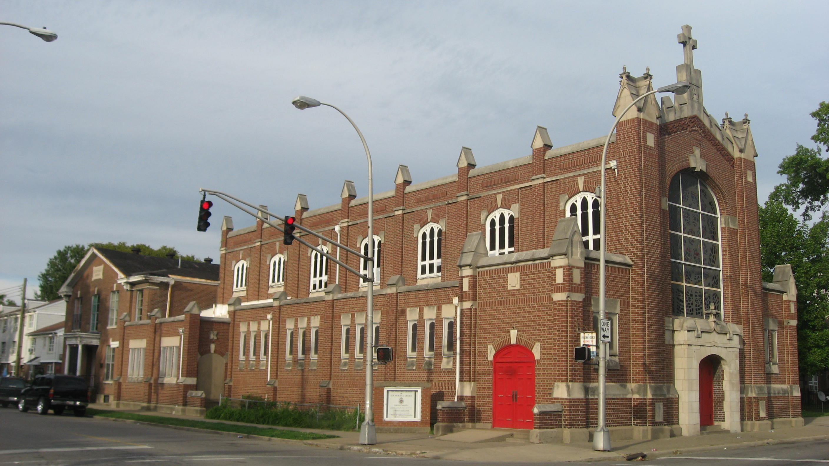 Front and western side of the Church of Our Merciful Saviour, located at 473 S. Eleventh Street in the West End of Louisville, Kentucky, United States. Built in 1912, it is listed on the National Register of Historic Places.